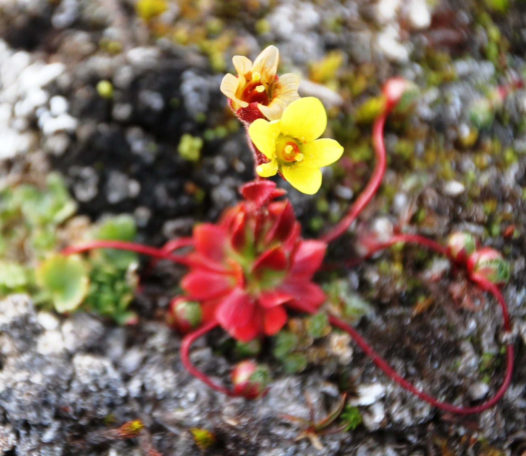 Saxifrage flowers observed at the island Spitsbergen - Svalbard. August 2012.